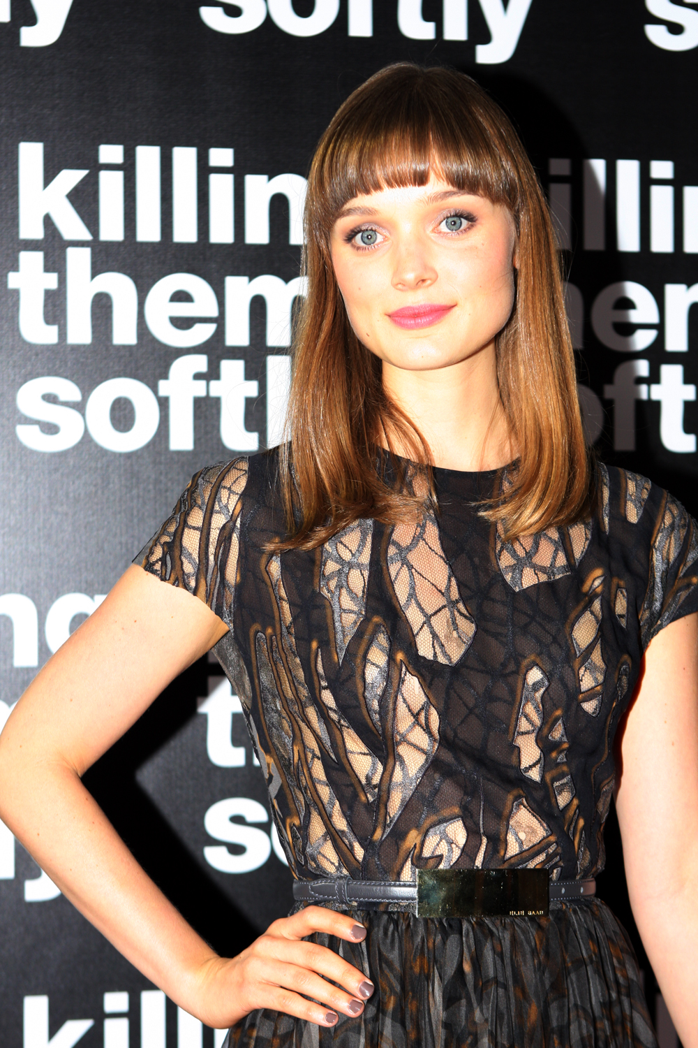 Killing Then Softly movie premiere at Dendy Opera Quays